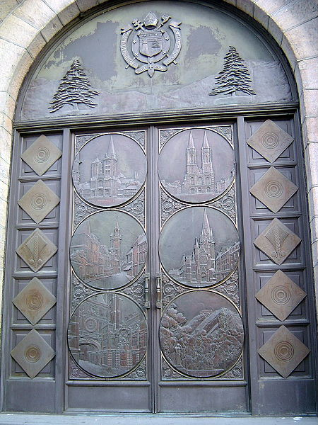 Bronze Medallions from Doors of the dining room of the SS Normandie, now adorn the front doors of Our Lady of Lebanon Roman Catholic Church in Brooklyn Heights. July 2007 clarification and additional information: The church doors feature bronze medallions taken from the giant dining room entry way on the Normandie. The original two dining room doors were 20 foot tall, spanned over two ship decks in height and had 10 medallions--five on each door. The fate of the actual Normandie doors is not known. Six of the medallions were installed in the church's Henry St. doors. Four of the medallions were installed in the two Remsen St. doors. The original door assemblies on the ship included script under each medallion describing the scene. The medallions were created by the French artist Raymond Subes. This is based on a June 20, 1982 New York Times article and two books on the Normandie: (1) "Normandie, Liner of Legend" by Clive Harvey. (2) "Normandie Queen of the Seas" by Foucart, Offrey, Robischon, and Villiers. This is also based on a July 2007 phone discussion in which the church representative indicated that the church does not have the SS Normandie doors but rather has medallions from the Normandie mounted in its own church doors. Mansour Stephan, the church's pastor at the time of the acquisition, was an antique enthusiast. The church also acquired the Normandie's Captain's Table that remains in use at this time. Upper left medallion: Cathédrale Saint-Pierre in Lisieux. Upper right medallion: Église Notre-Dame in Saint-Lô. Middle left medallion: rue de l'Horloge and tour de l'Horloge in Évreux. Middle right medallion: église Saint-Pierre and the place du Marché-au-Bois in Caen. Lower left medallion: Tour du Gros-Horloge in Rouen. Lower right medallion: Montagne and fort du Roule in Cherbourg.